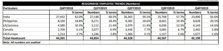 HGS